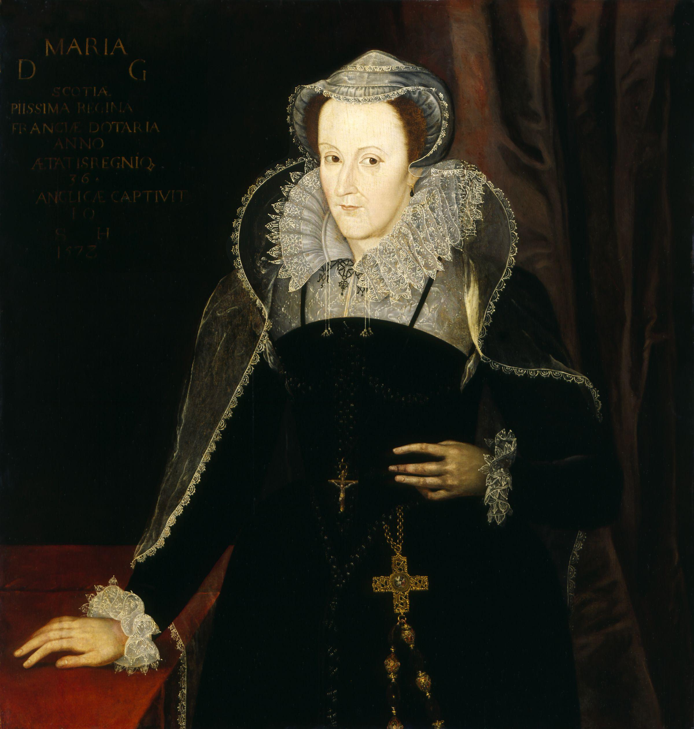 "Mary, Queen of Scots in captivity". This portrait is one of the many portraits of the queen of Scots during her captivity in England. They are known as "Sheffield portraits" and have the painted date 1578. Actually, they are apocryphal paintings painted in the XVII century during the reign of James I. Thery are called "Sheffield portraits" and have the date 1578 because they were inspired by an original and contemporary portrait of Queen Mary painted by Nicholas Hilliard when she was at Sheffield House in 1578. Besides this version of the Sheffield Portrait, other famous versions are those of the Scottish National Portrait Gallery, of the private collection of Lord Chesham at Latimer, of Hardwick Hall. (Source "Mary, Queen of Scots" by Lady Antonia Fraser). All images in this batch have been confirmed as author died before 1939 according to the official death date listed by the NPG.